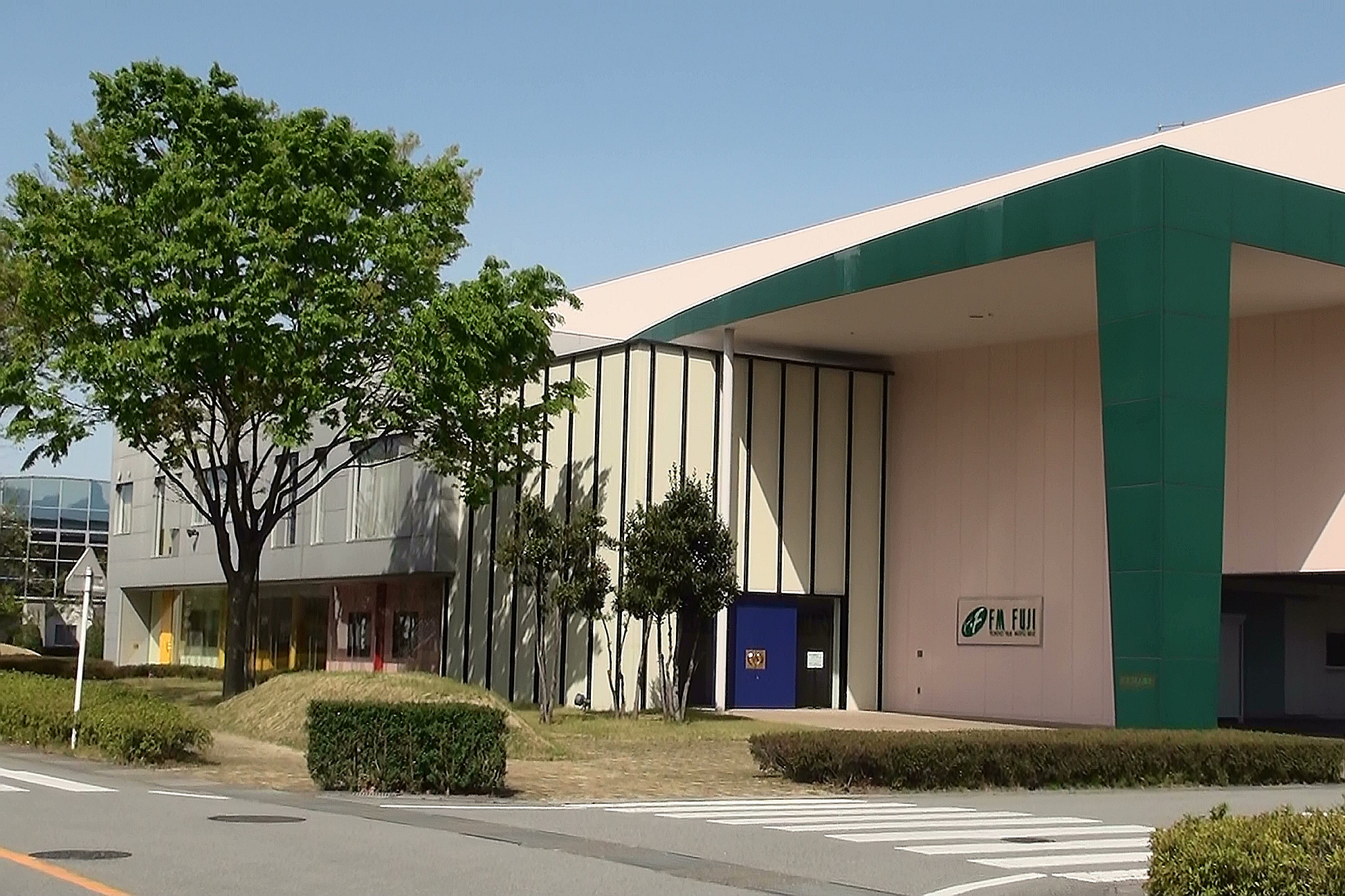 FM Fuji Co.Ltd at Kofu City